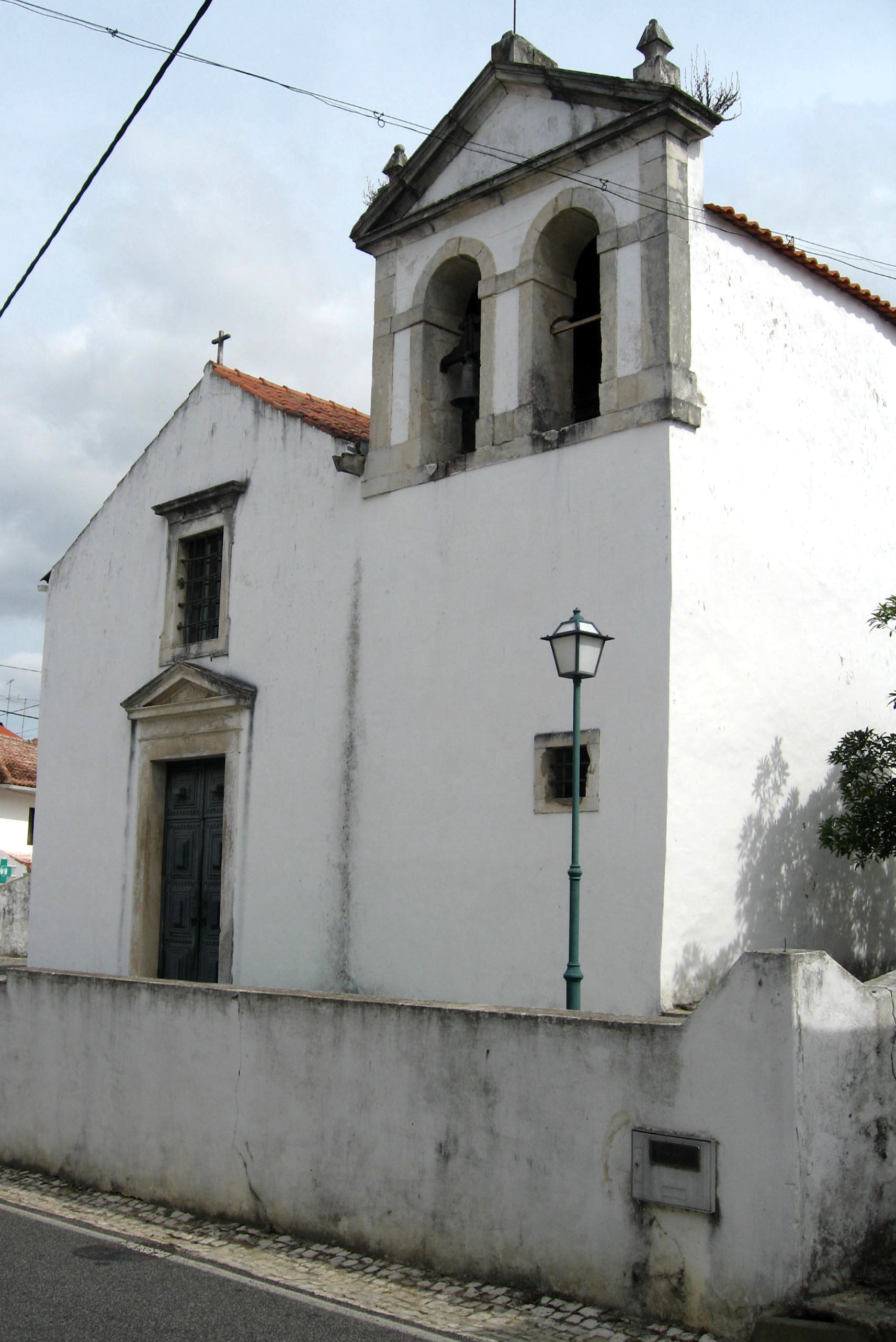 Alcobaça, Portugal, Mosteiro, Coutos of Alcobaça, Cós one of the 13 old cities of the coutos, church, Igreja de Eufemia, former Misericórdia, 16th century